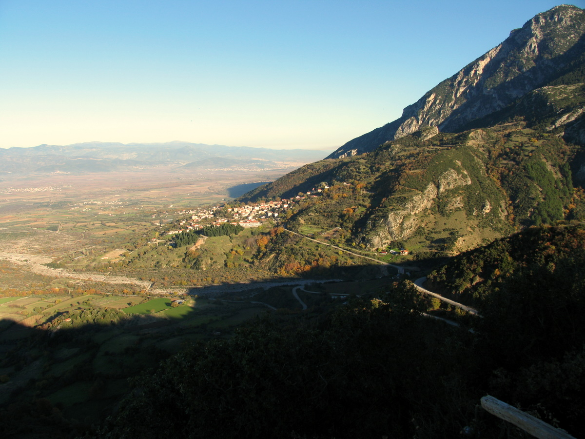 Greek Village Ypati, Fthiotida Prefecture, view from mount Profitis Ilias